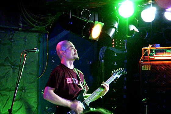 KK Null from Zeni Geva